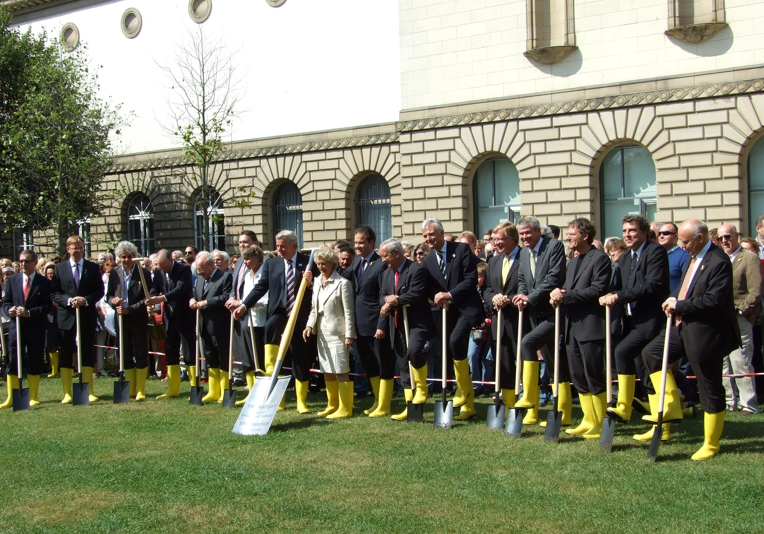 Groundbreaking for the Extension of the Städel Museum, 2009